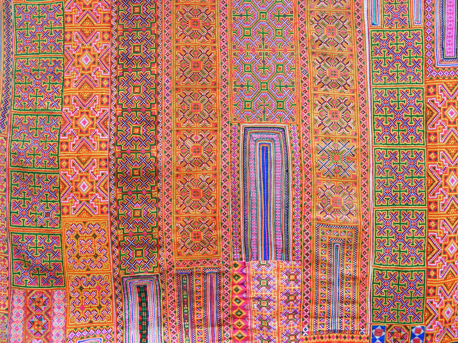 Detail of colorful blanket for sale at Bac Ha Market